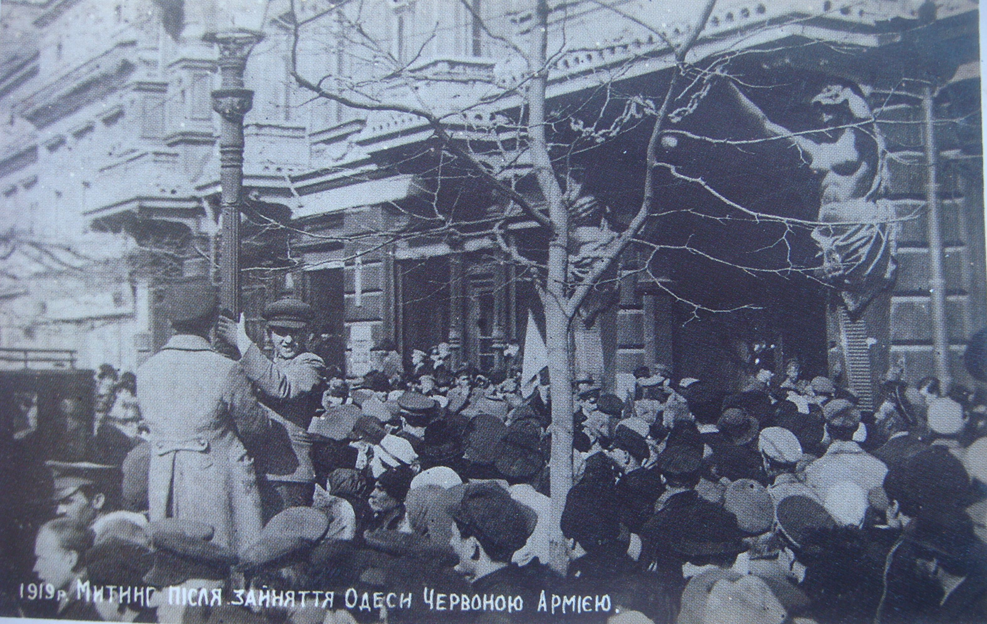 Bolshevists meeting in Odessa after city was left by White Army and Allied troops